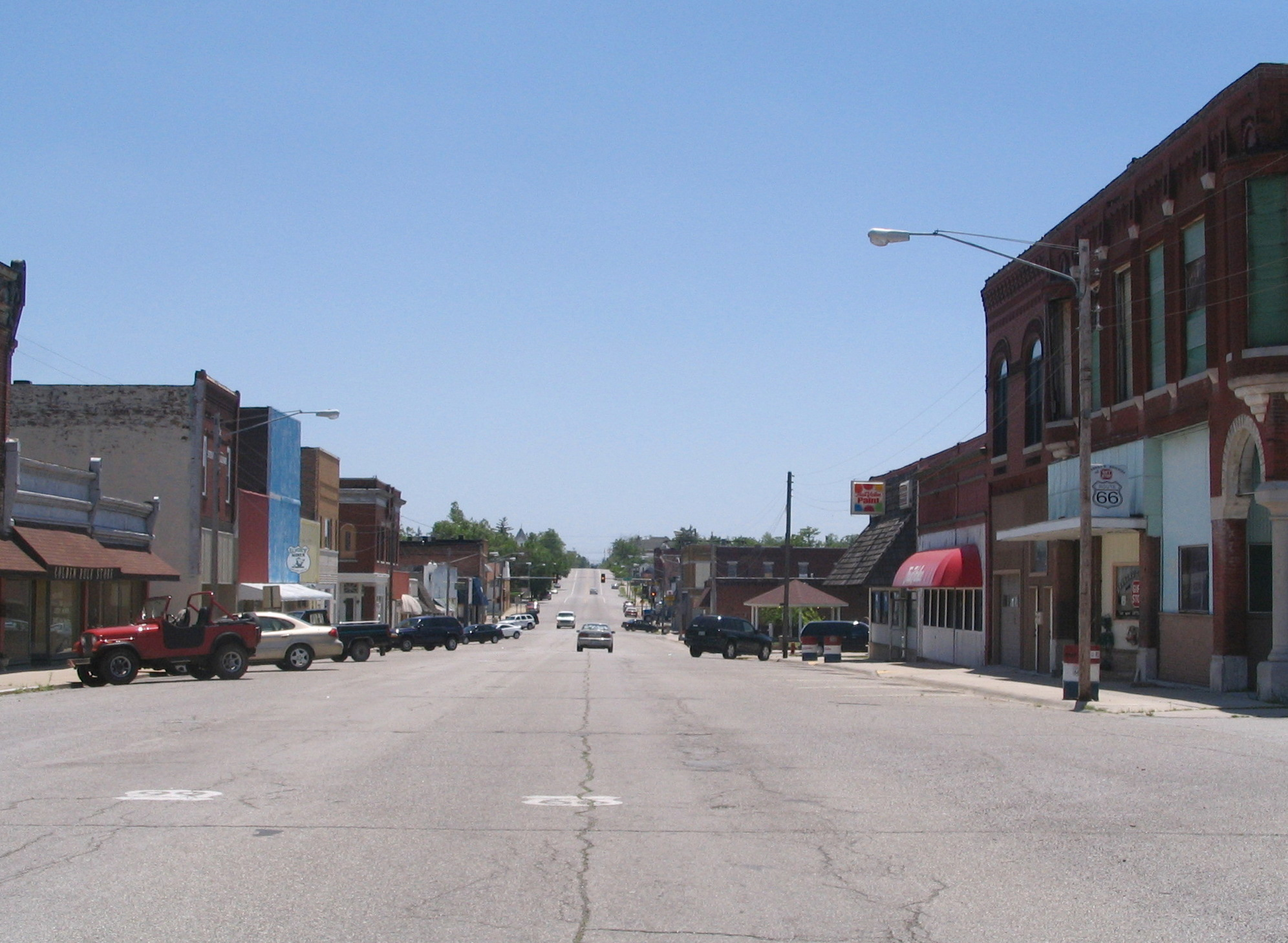 Main Street in Galena KS looking south from 4th Street. Old alignment of Route 66.